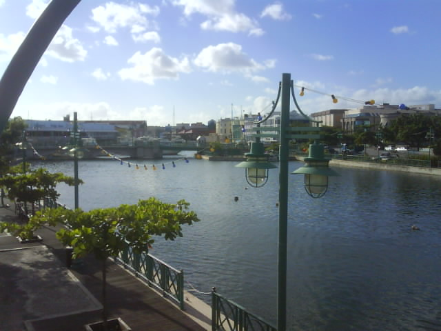 The Inner Basin of the Constitution River towards the Chamberlain Bridge. Bridgetown, Barbados.